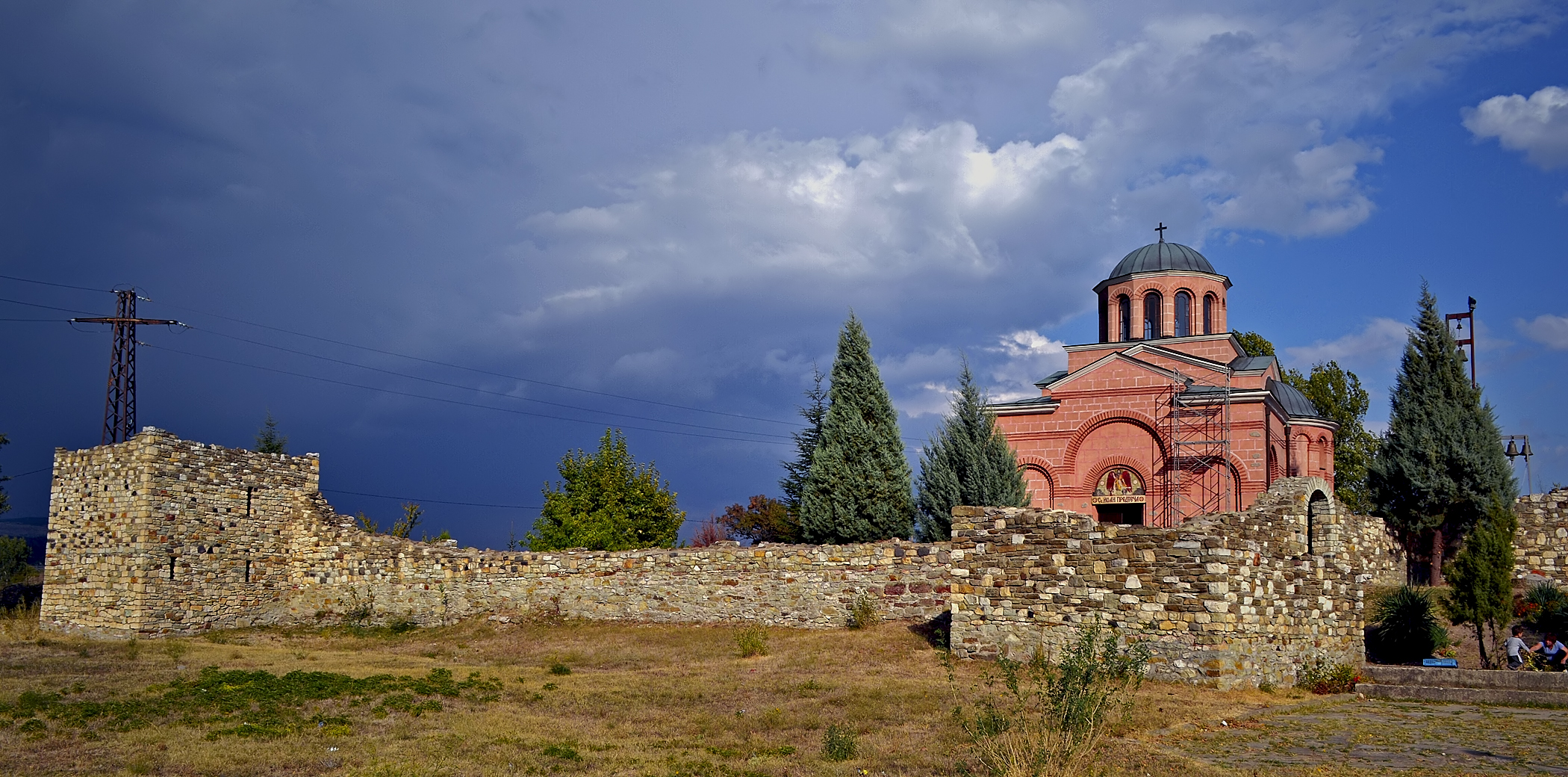 St. John the Precursor Chapel